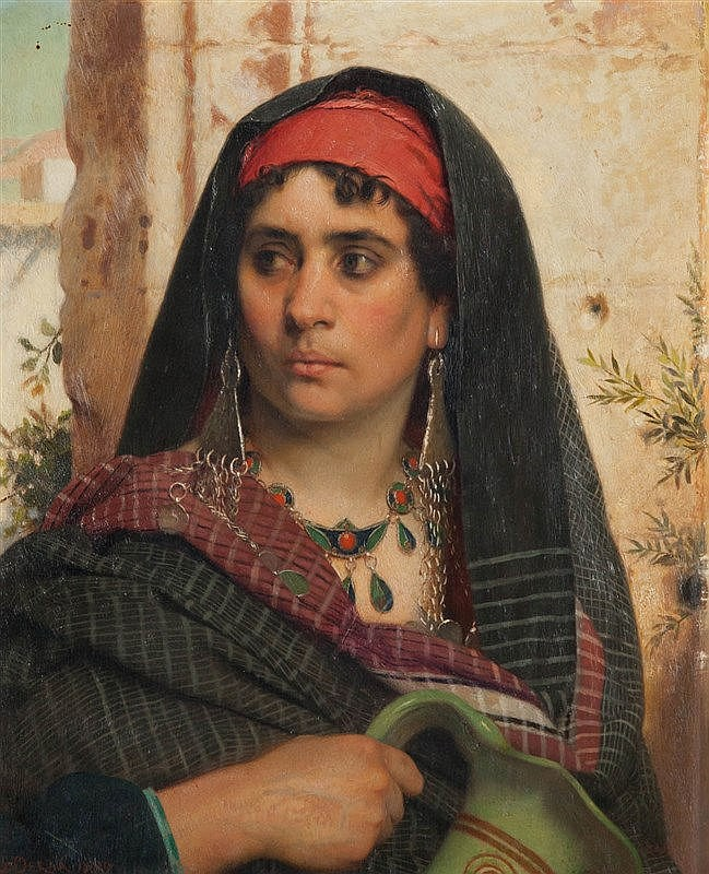 Mediterranean woman with water jug